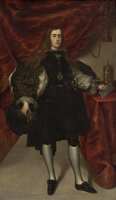 Portrait of the Duke of Pastrana (1649-1693)